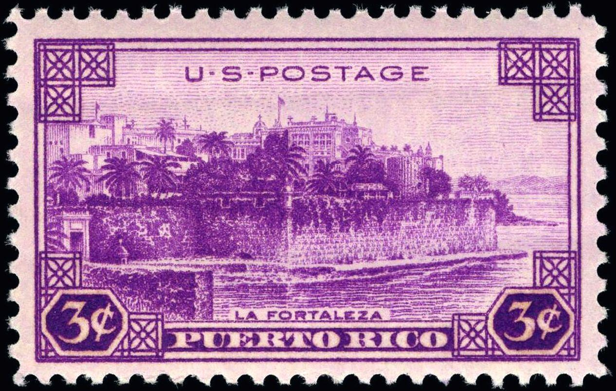 Image of U.S. commemorative stamp